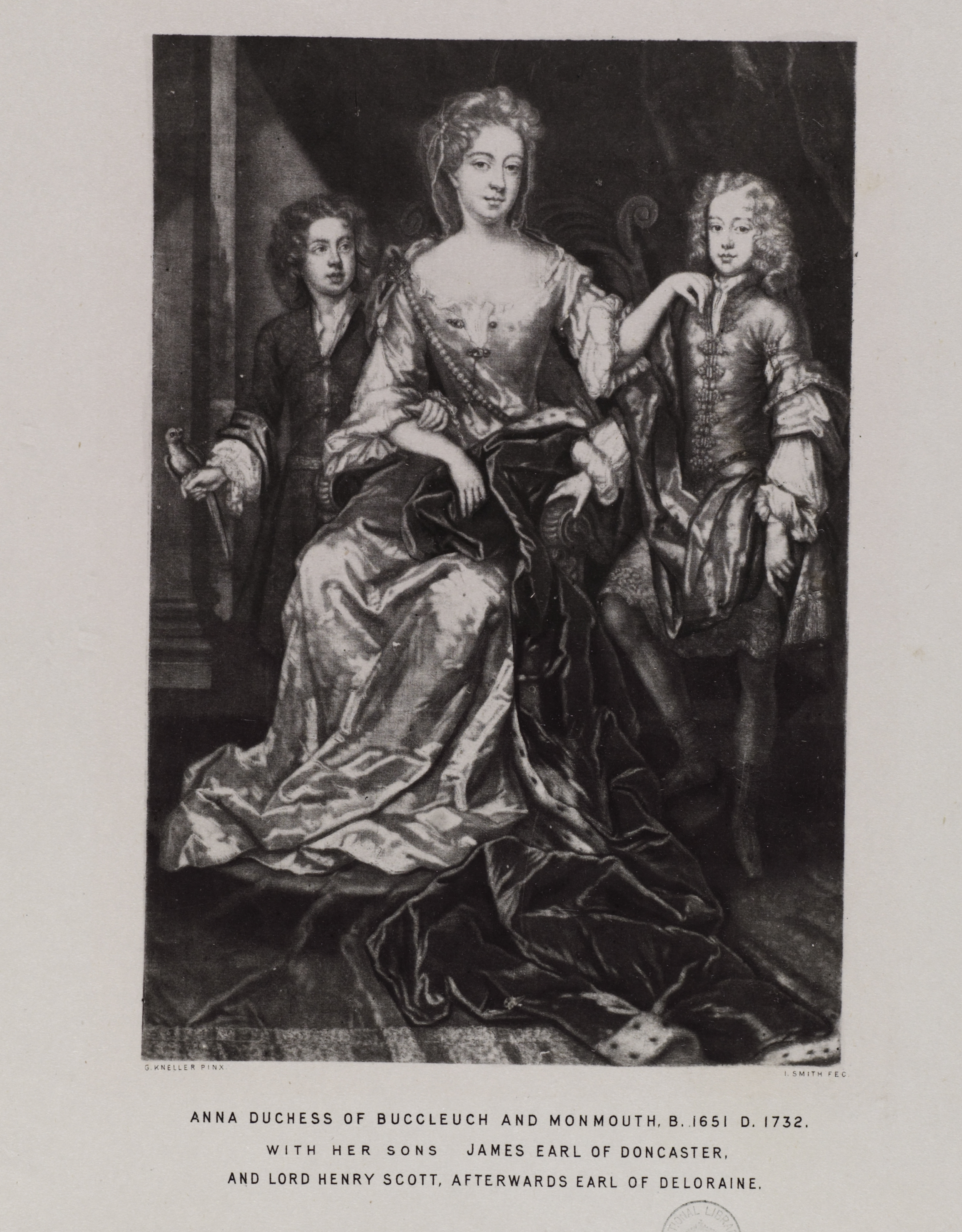 Anna, Duchess of Buccleuch and sons